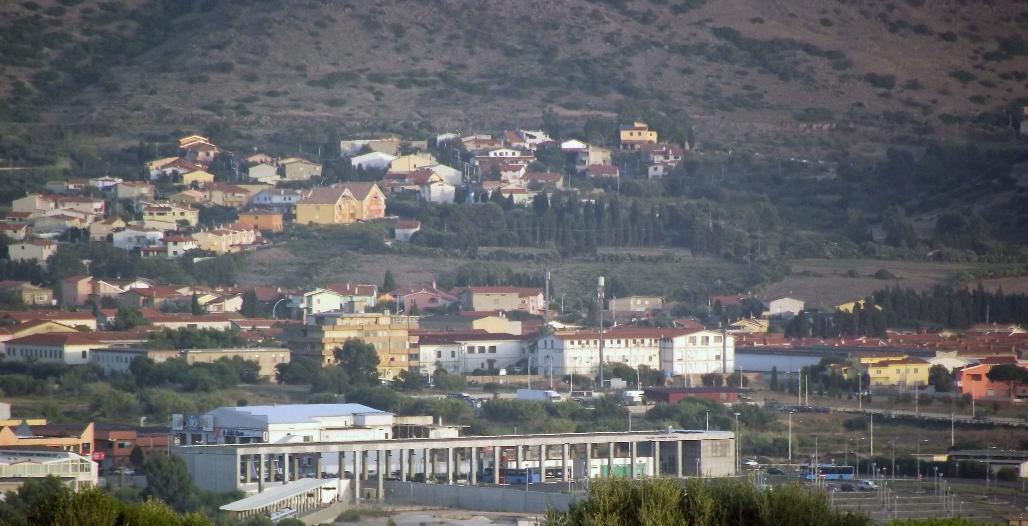 The Carbonia Serbariu rail and bus station, seen from Monte Sirai, near Carbonia, Sardinia, Italy